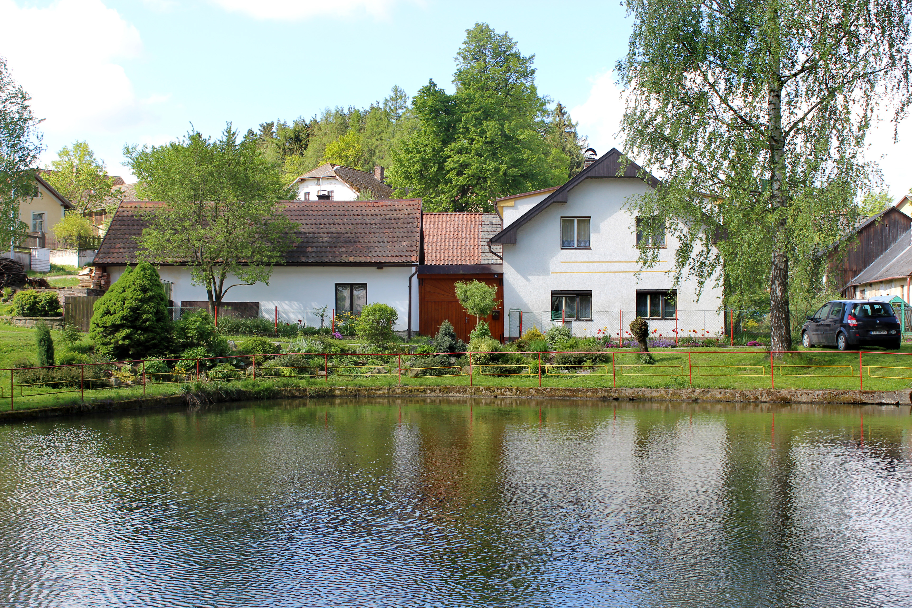 Dolní Jablonná, part of Přibyslav, Czech Republic